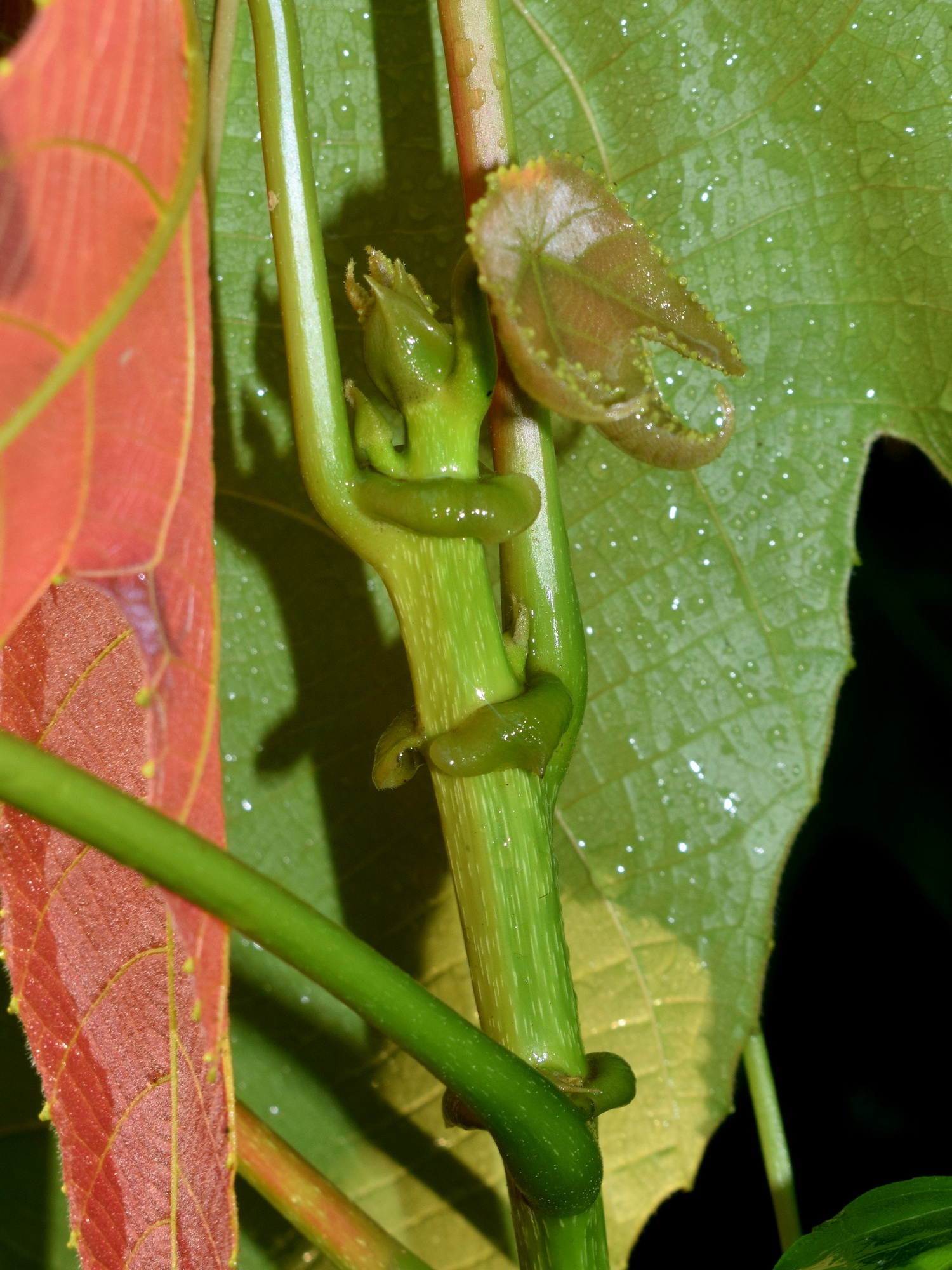 Macaranga triloba; stipules and bud. From Bogor, West Java, Indonesia.